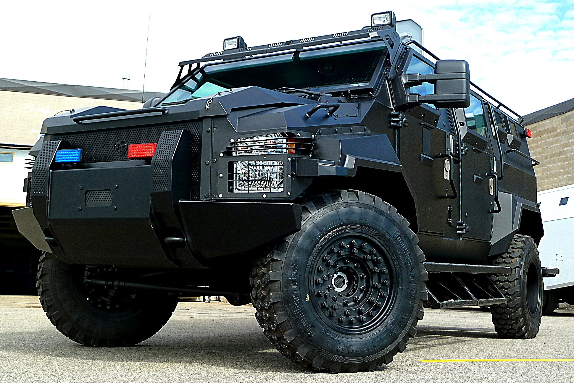 Streit Group Spartan-APC Innisfil Manufacturing Facility